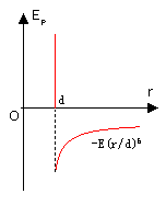 The graph of intermolecular force and potential energy by the Sutherland model.